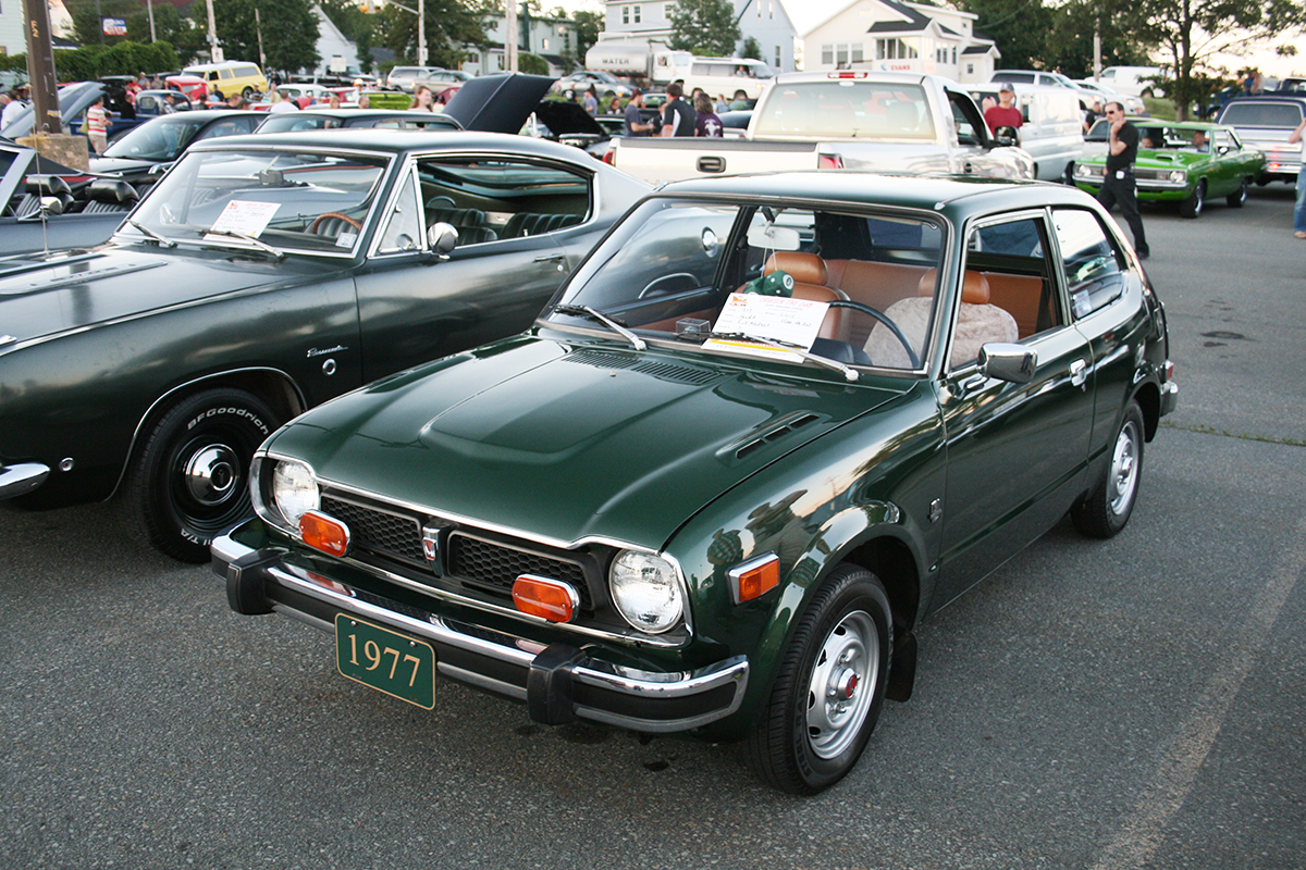 1977 Honda Civic